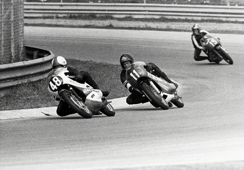 Jarno Saarinen at 1971 Nations motorcycle Grand Prix, Monza, Italy